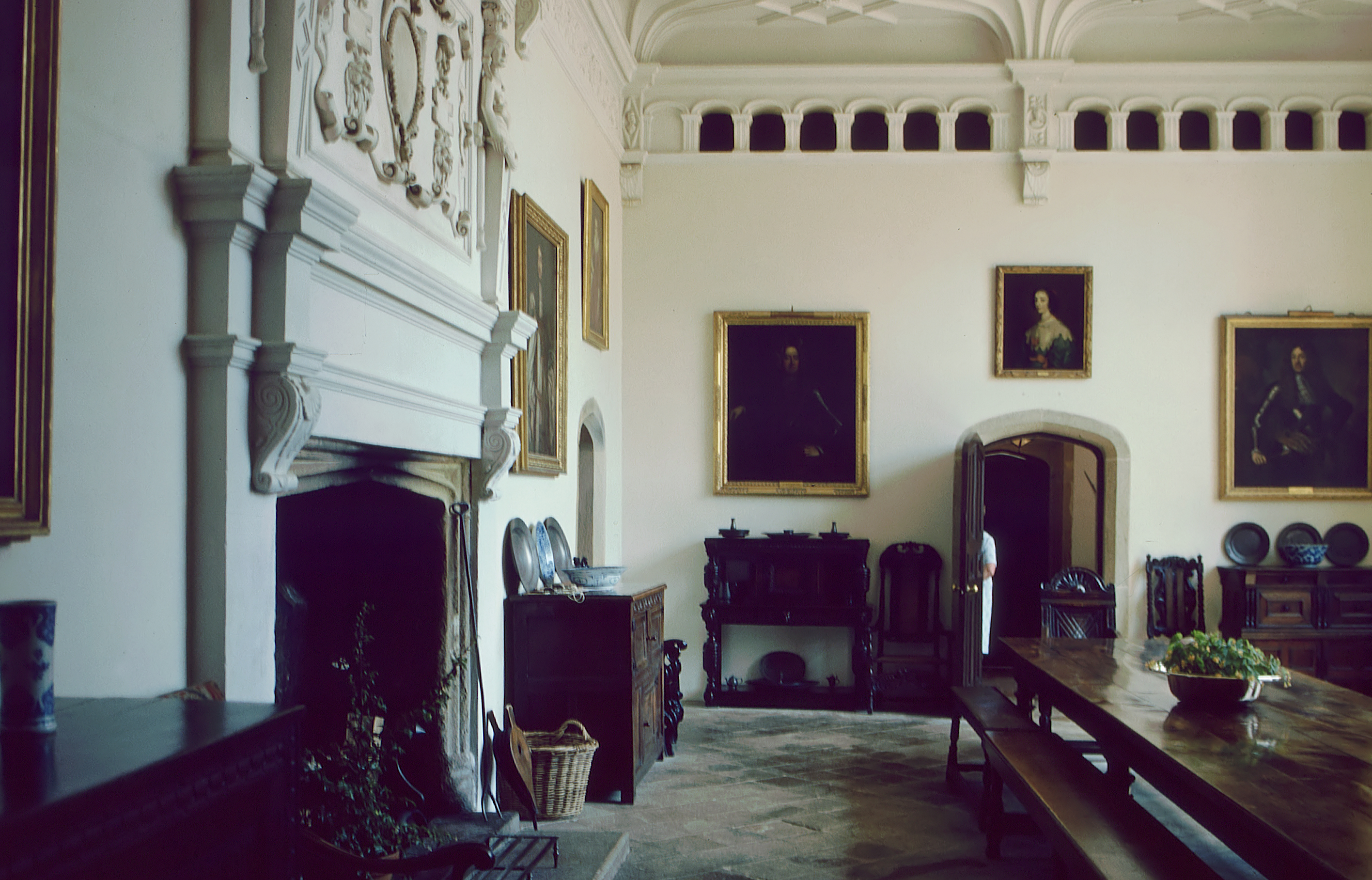 Trerice House - Dining Hall. Elizabethan Manor House near Newquay, Cornwall/England